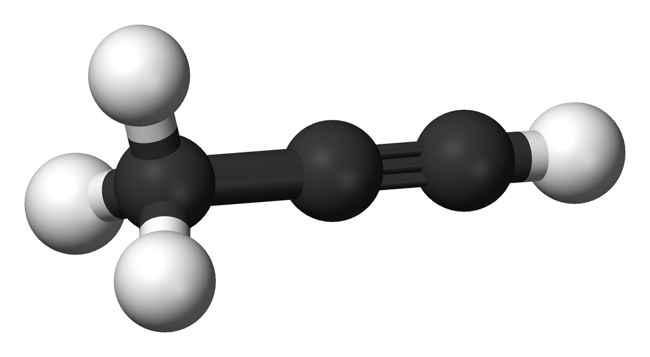 Ball-and-stick model of the propyne molecule (also known as methylacetylene), a three-carbon alkyne used in gas welding.